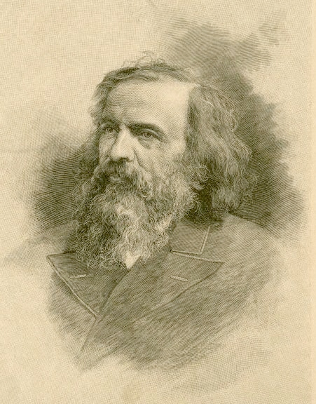 Russian chemist Dmitri Mendeleev